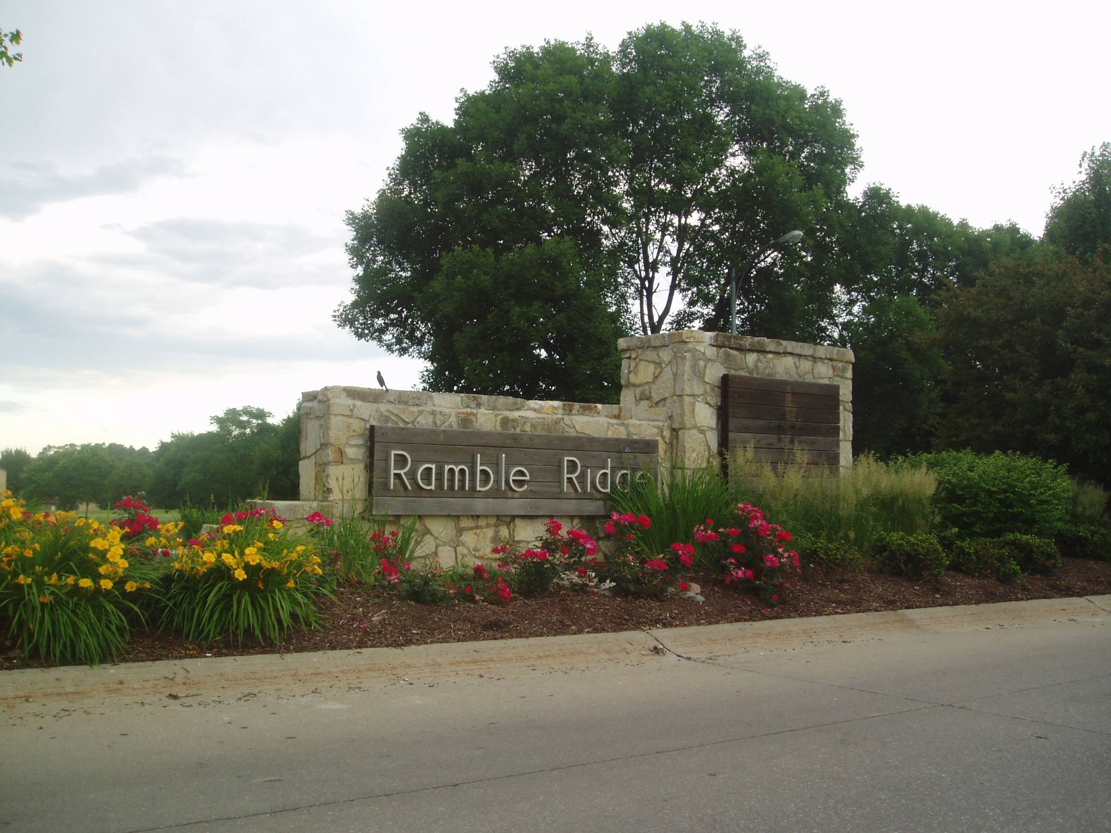 picture of a park in Omaha